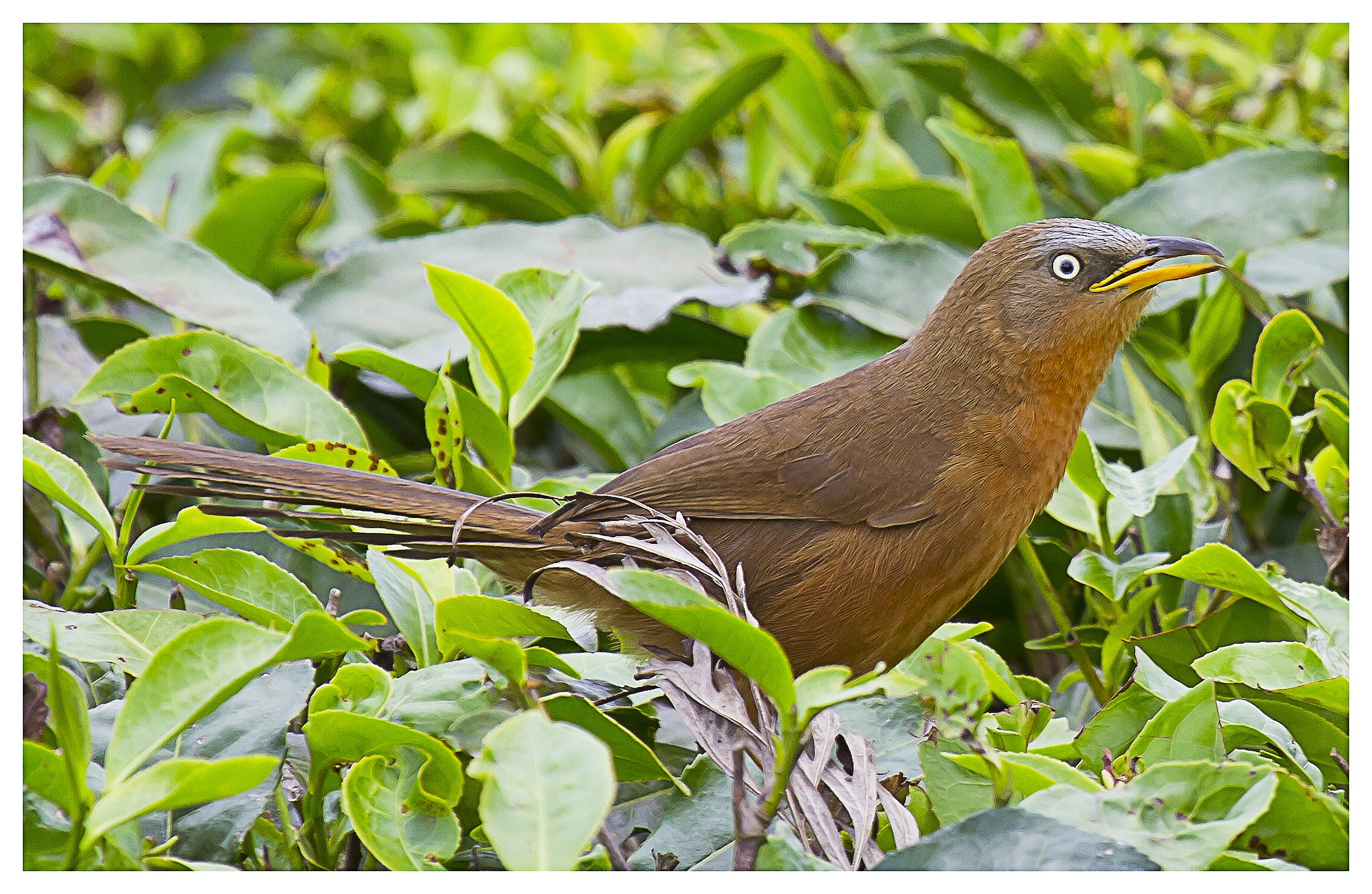 The rufous babbler (Turdoides subrufa) is a member of the Leiothrichidae family endemic to the Western Ghats of southern India. It is dark brown and long tailed, and is usually seen foraging in noisy groups along open hillsides grass or forest.